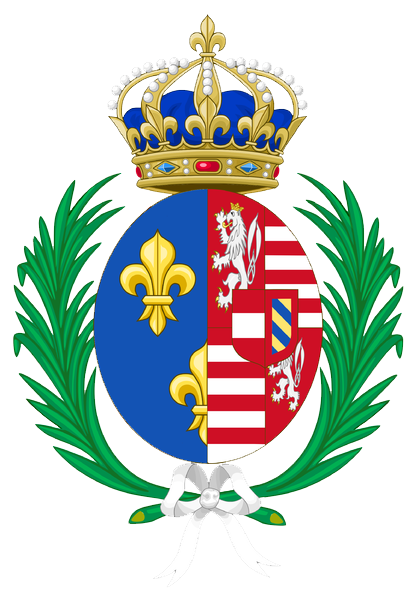 Arms of Elizabeth of Austria, queen of France. To improve if necessary.